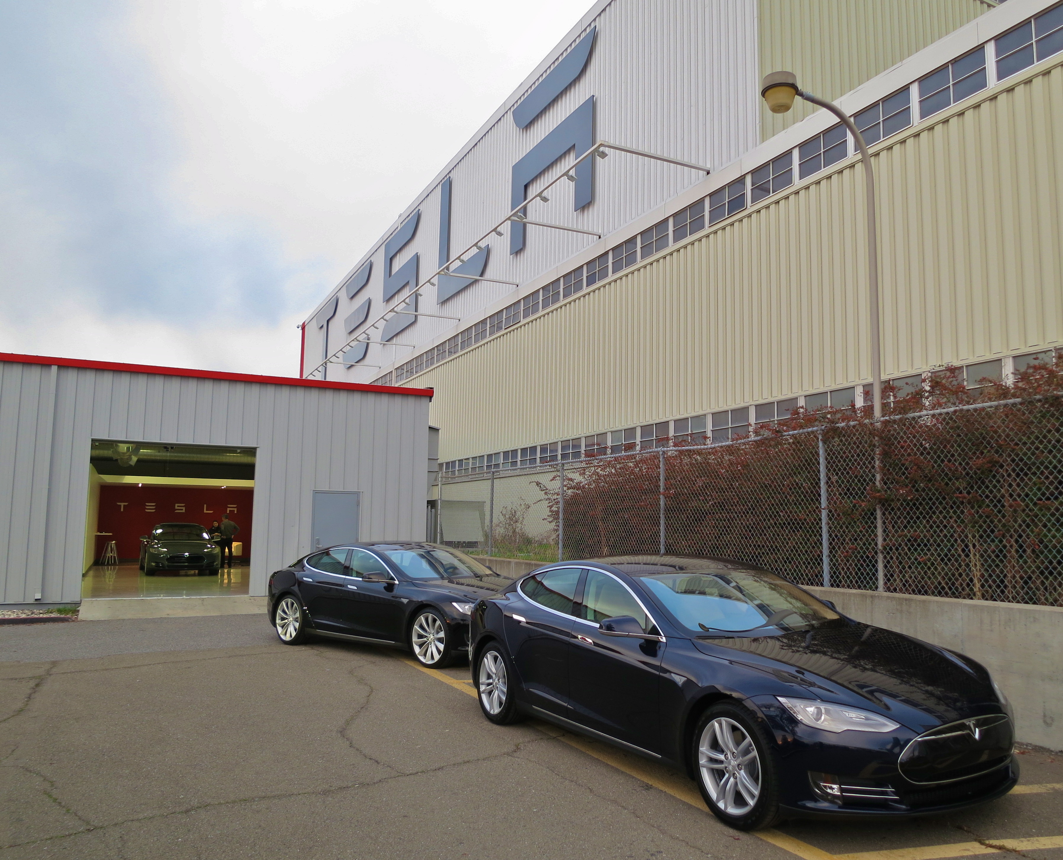 New car pickup at Tesla's Fremont CA factory.